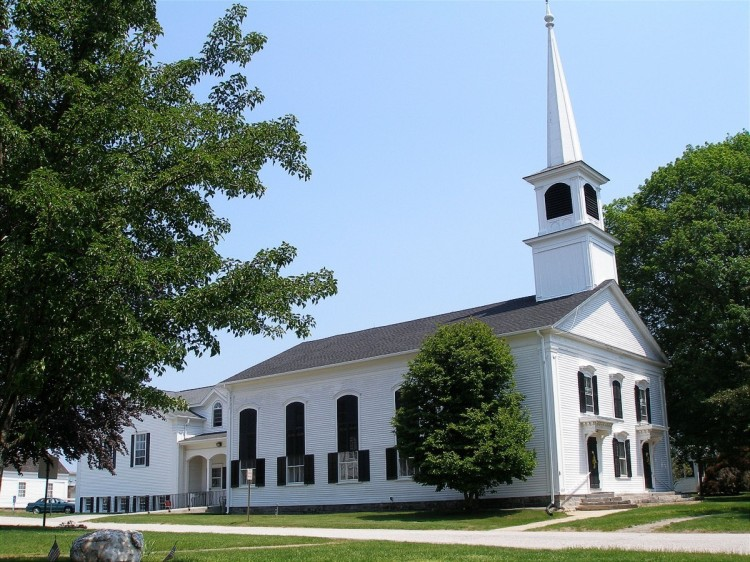 Congregational Church, Columbia, CT; part of the Columbia Green Historic District.